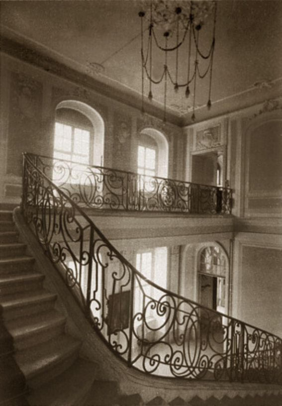 The interior of the Palace in Rybarzowice. Photograph of 1935.